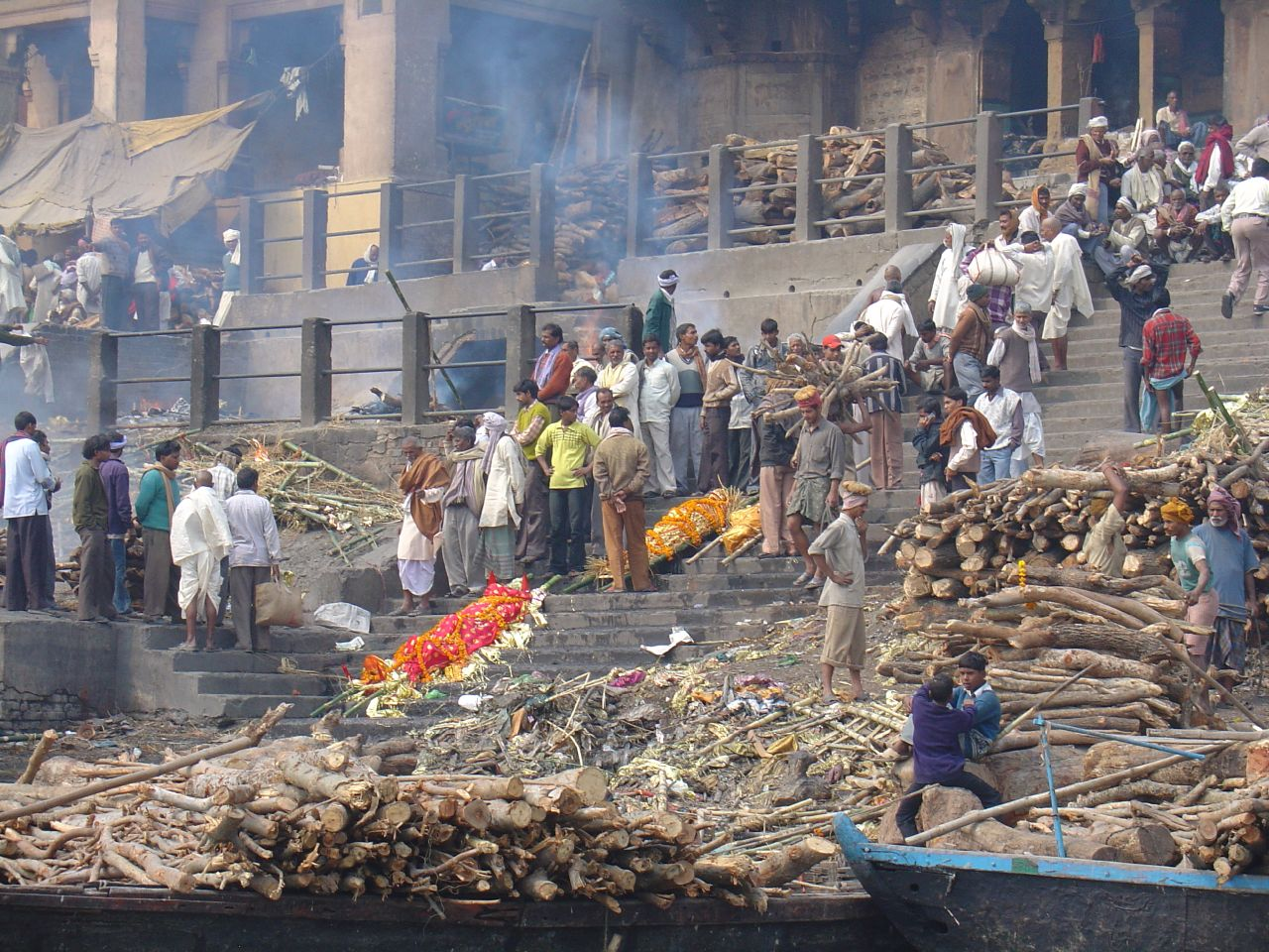 Bodies waiting for Cremation Burning